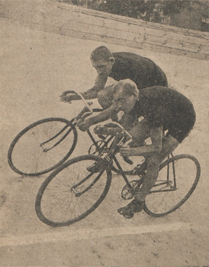 Two polish cyclists Franciszek Szymczyk & Józef Lange